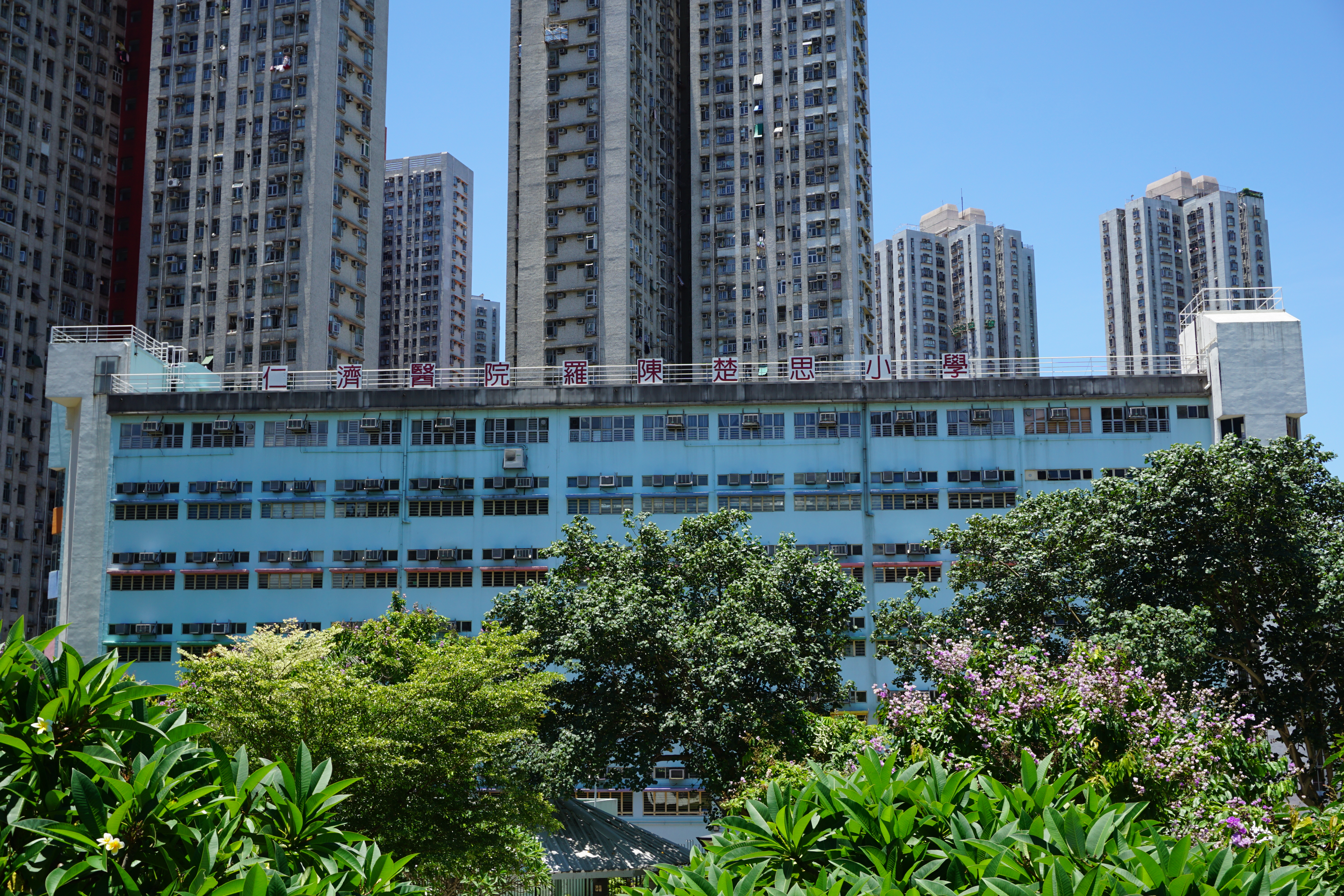 Yan Chai Hospital Law Chan Chor Si Primary School in Tuen Mun, Hong Kong.